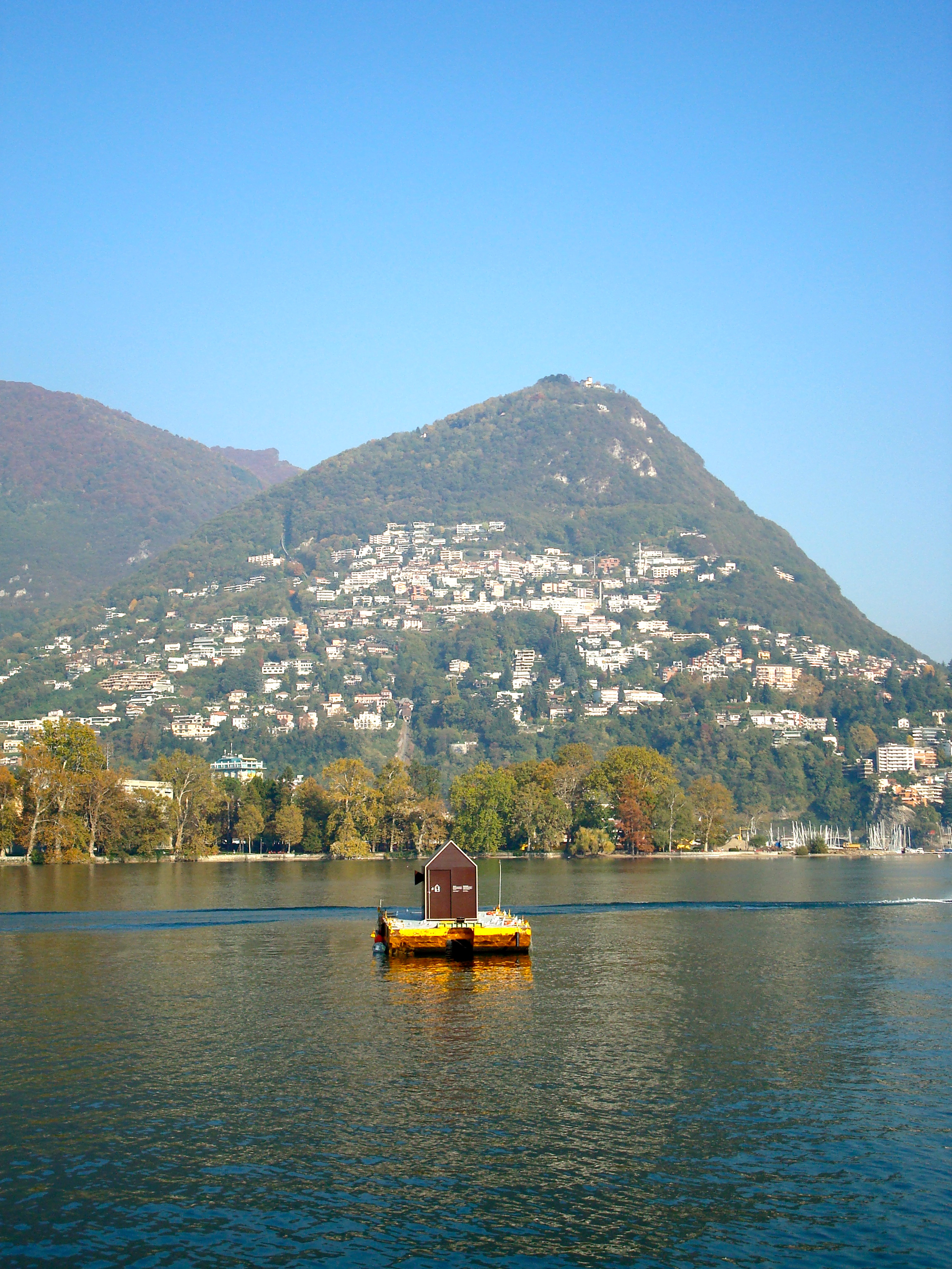 Camera Obscura on Lake Lugano during the exhibition "Una finestra sul mondo"